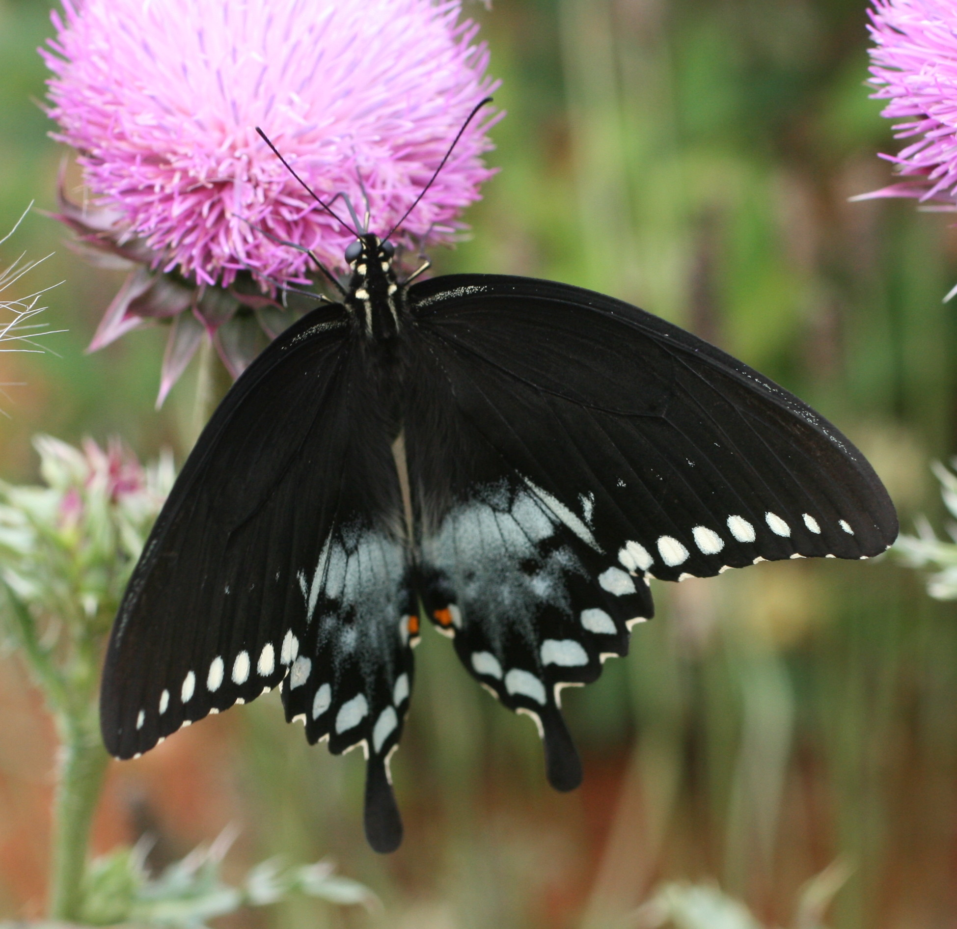 Spicebush Swallowtail, male